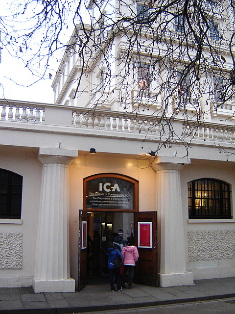 Institute of Contemporary Arts, The Mall, Westminster, London.